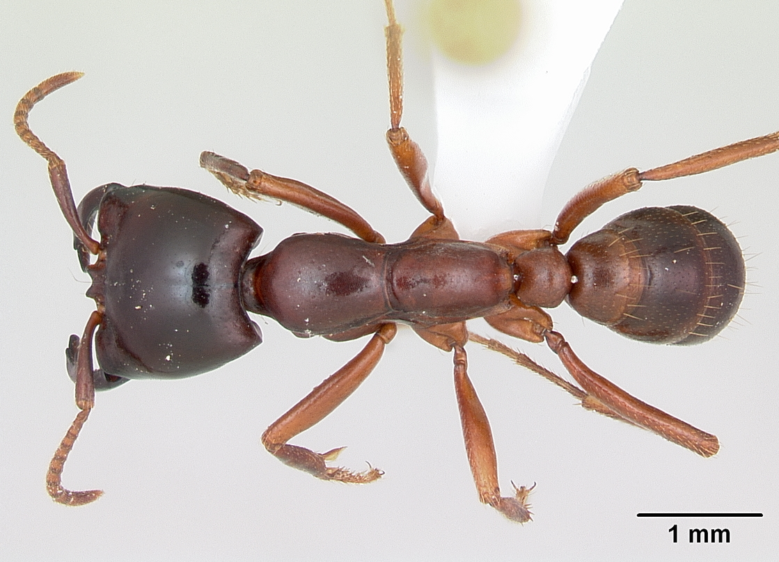 Dorsal view of ant Dorylus gribodoi specimen casent0172627.